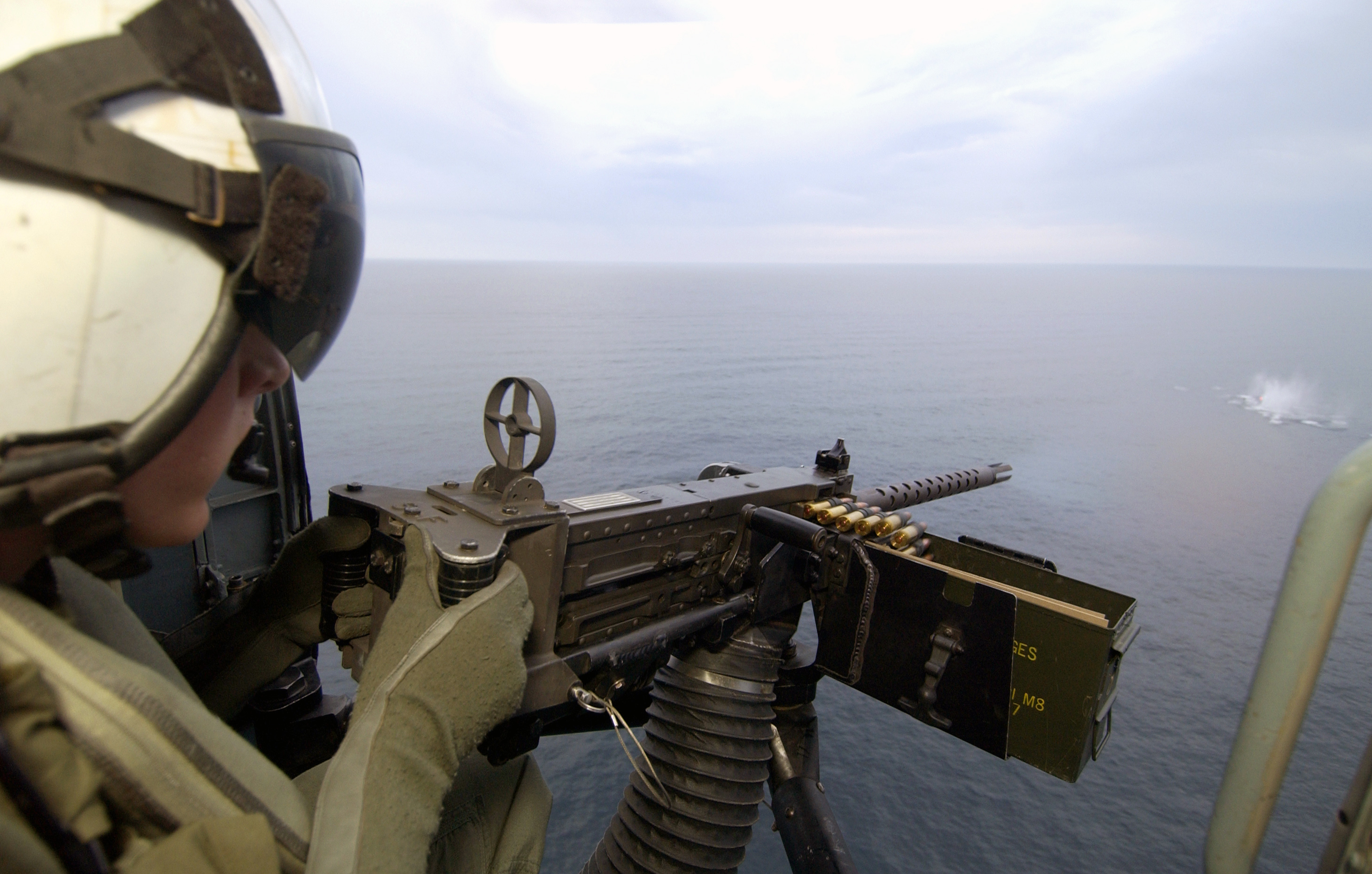 At sea with USS Bulkeley (DDG 84) Apr. 24, 2004 - Aviation Warfare Systems Operator 2nd Class Patrick J.P. Neeley, from Plainfield, Ind., fires a .50 cal machine gun out of an SH-60B helicopter assigned to the "Swamp Foxes" of Anti-Submarine Squadron Forty Four (HSL-44) deployed aboard USS Bulkeley (DDG 84) while participating in exercises aimed at fighting the global war on terrorism. The Norfolk, Va. based Arleigh Burke Class guided missile destroyer is on a scheduled deployment in support of Operation Iraqi Freedom. U.S. Navy photo by Photographer’s Mate First Class Brien Aho. (RELEASED)